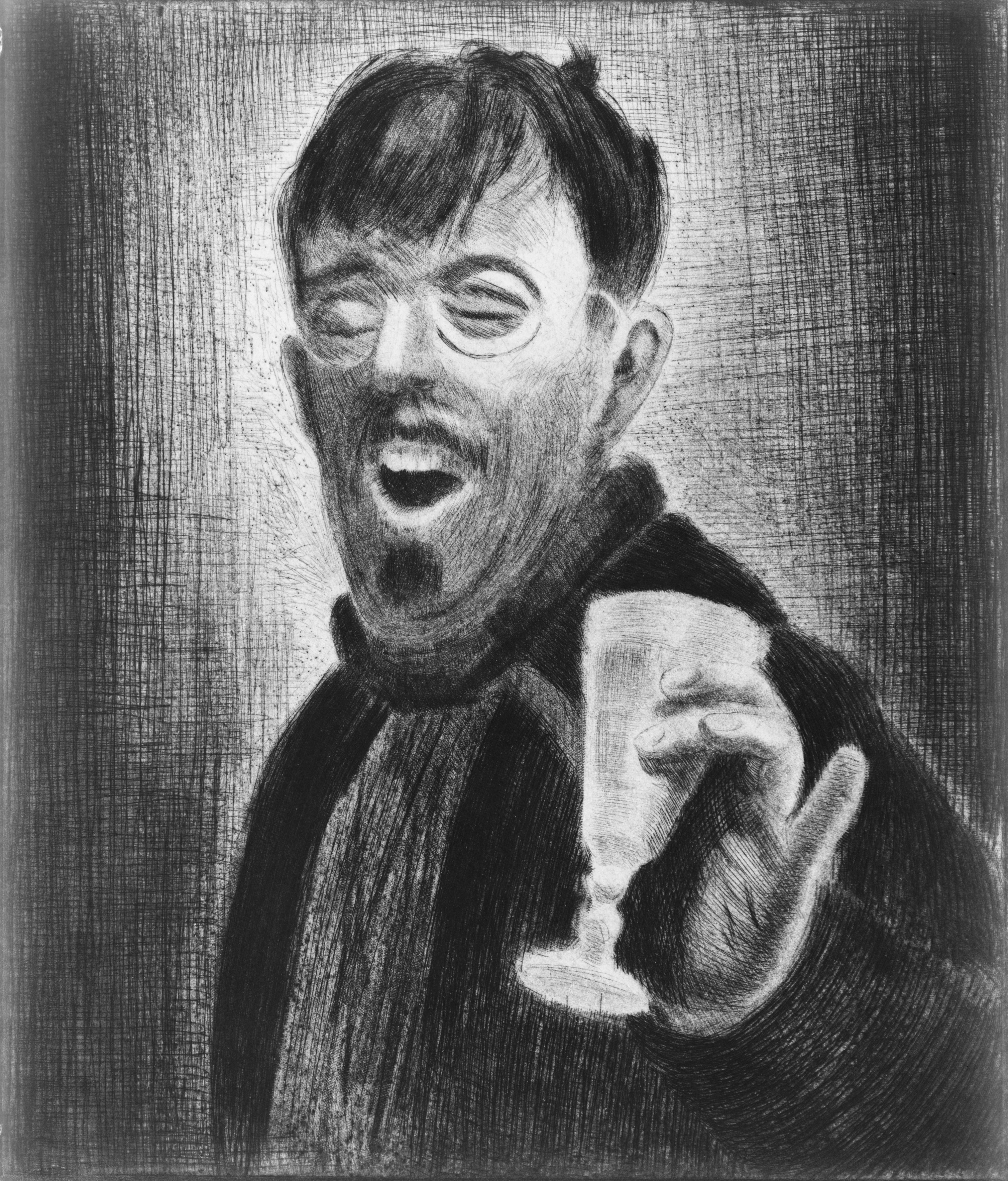 Title: Happy days (self-portrait) Abstract/medium: 1 print : etching, drypoint and roulette ; 26.6 x 22.6 cm.